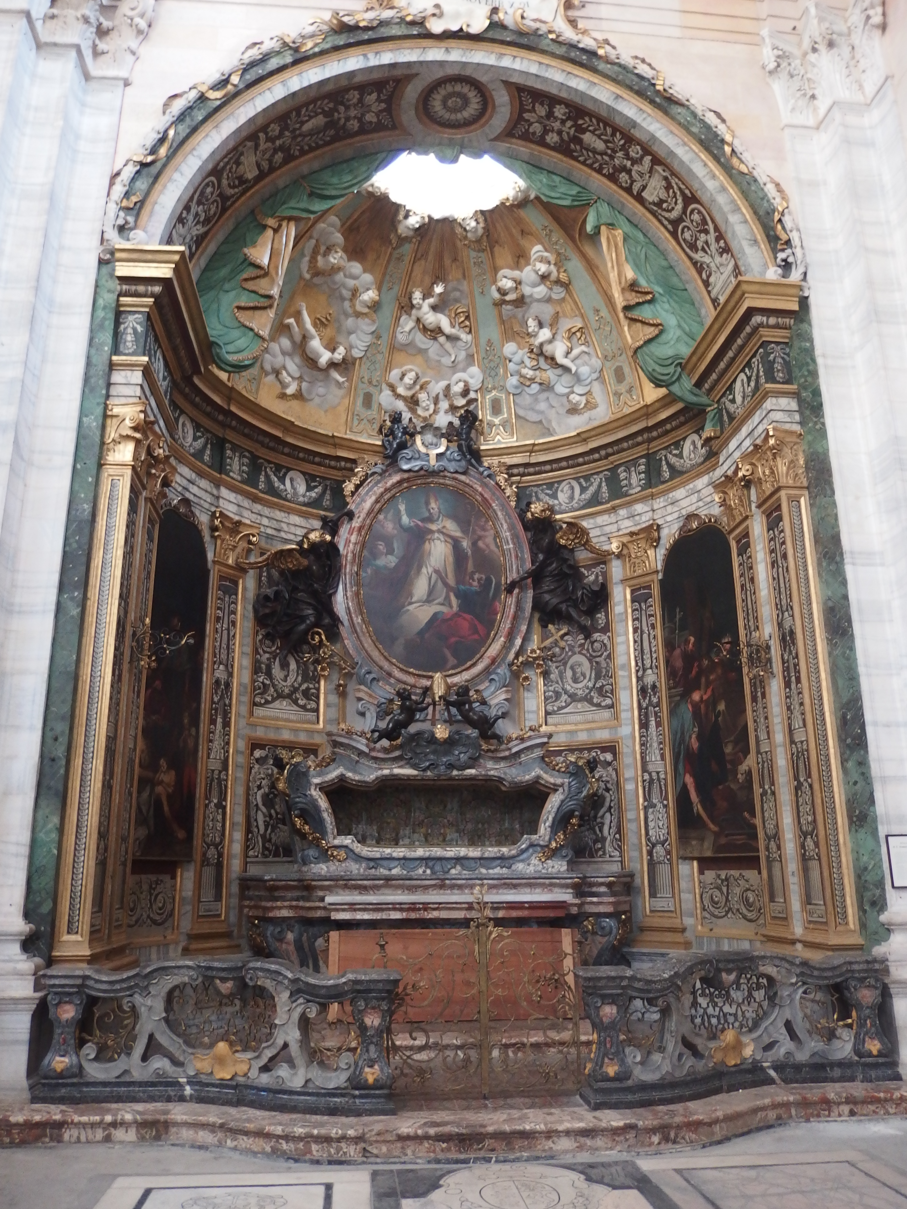 Altare di san Alessandro Sauli, Interno del Duomo (Pavia)